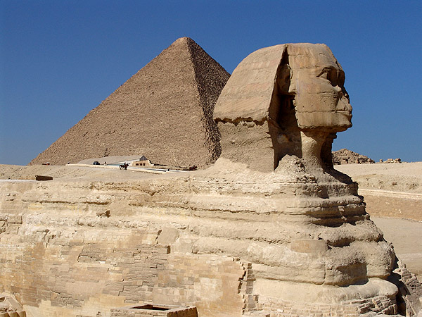 Sphinx and Great Pyramid of Giza